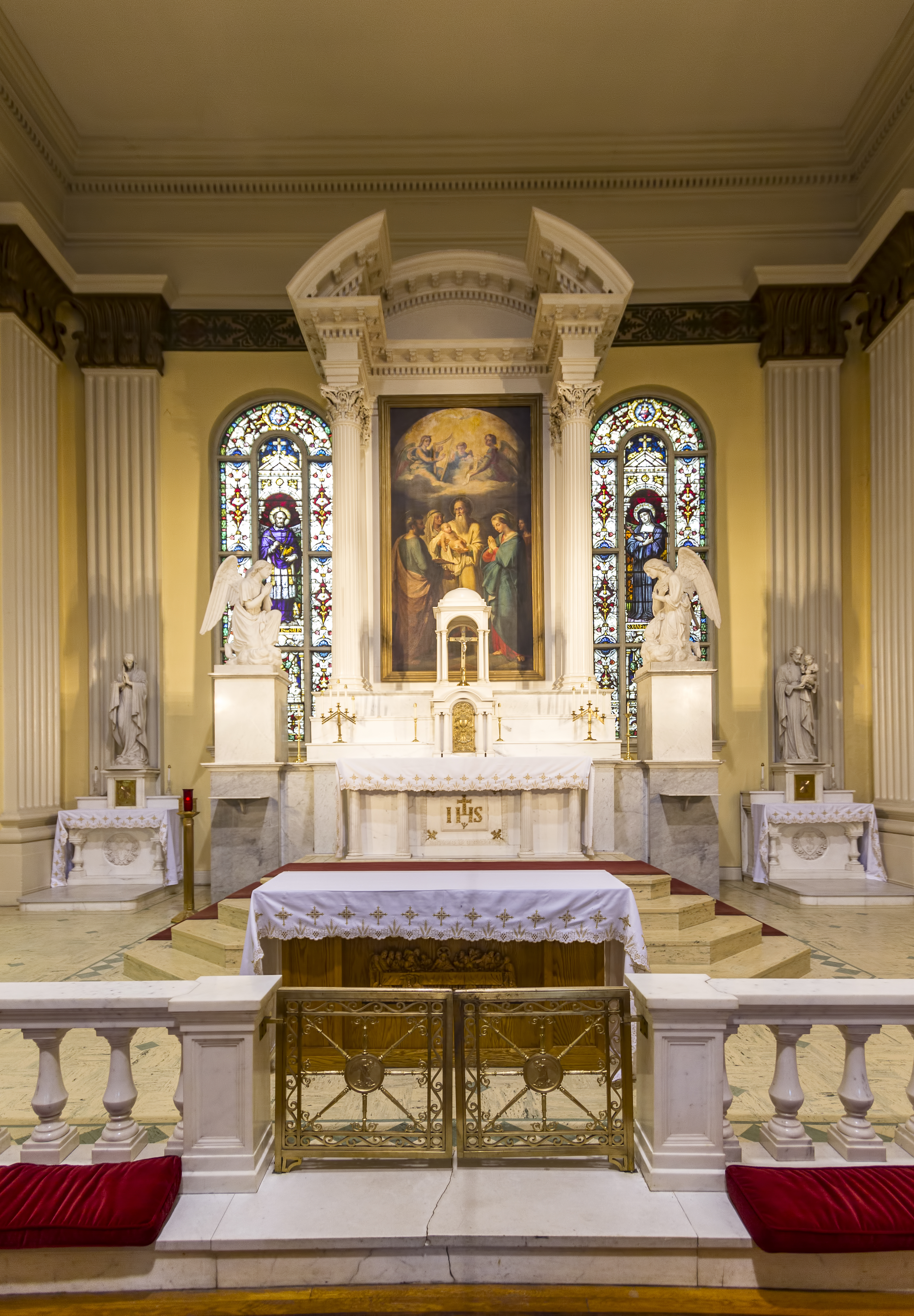 The chapel of the Visitation Academy of Frederick in the Frederick Historic District